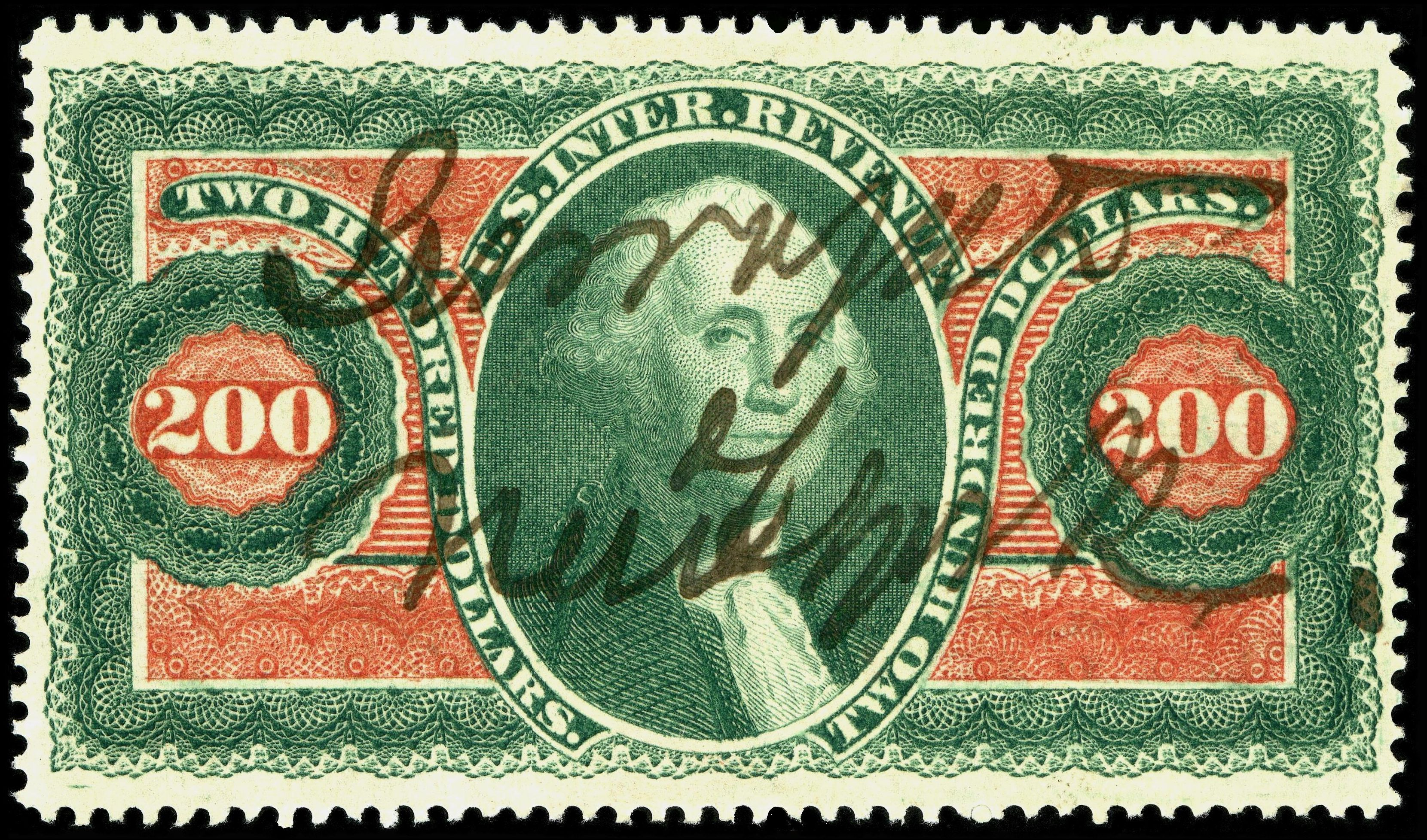 Image of Washington on U.S. Revenue stamp, $200, issue of 1862 (Scotts# R102)